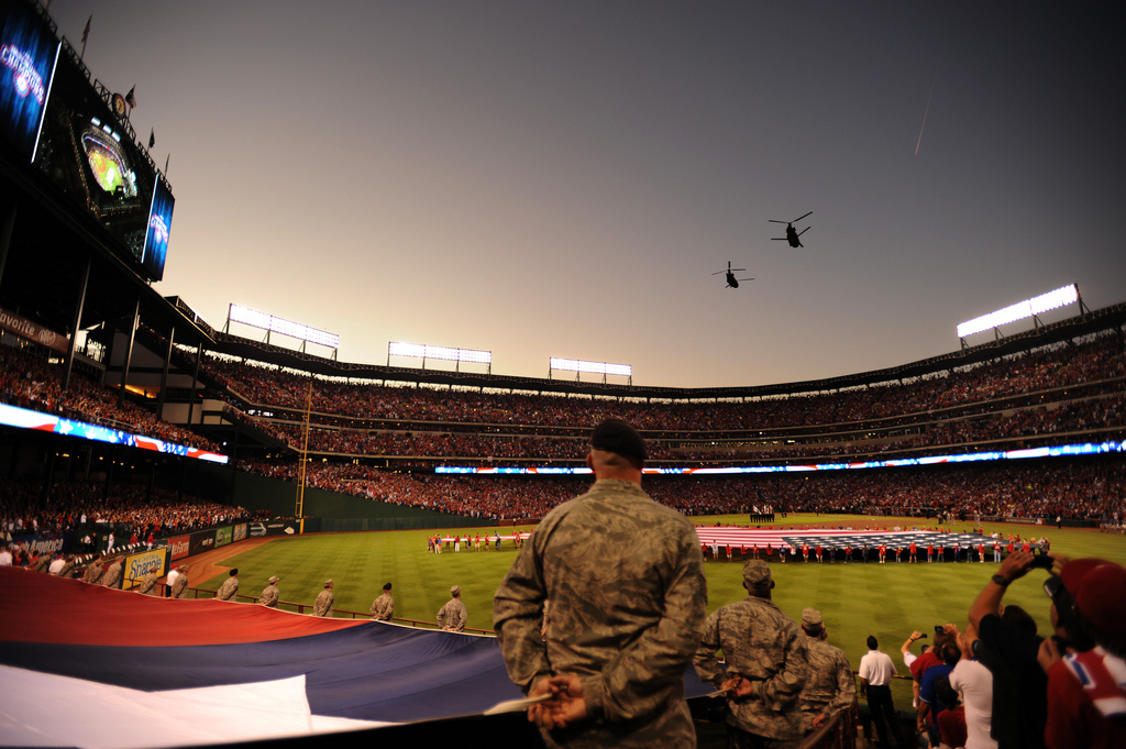 Two CH-47 Chinooks, belonging to the Texas Army National Guard, perform a two ship flyover during Game 4 of the Major League Baseball World Series between the St. Louis Cardinals and the Texas Rangers, Oct. 23, 2011, in Arlington, Texas. Other Game 4 participation from the Texas Military Forces included the singing of the national anthem during the seventh-inning stretch by Chief Warrant Officer 3 Darby Ledbetter.